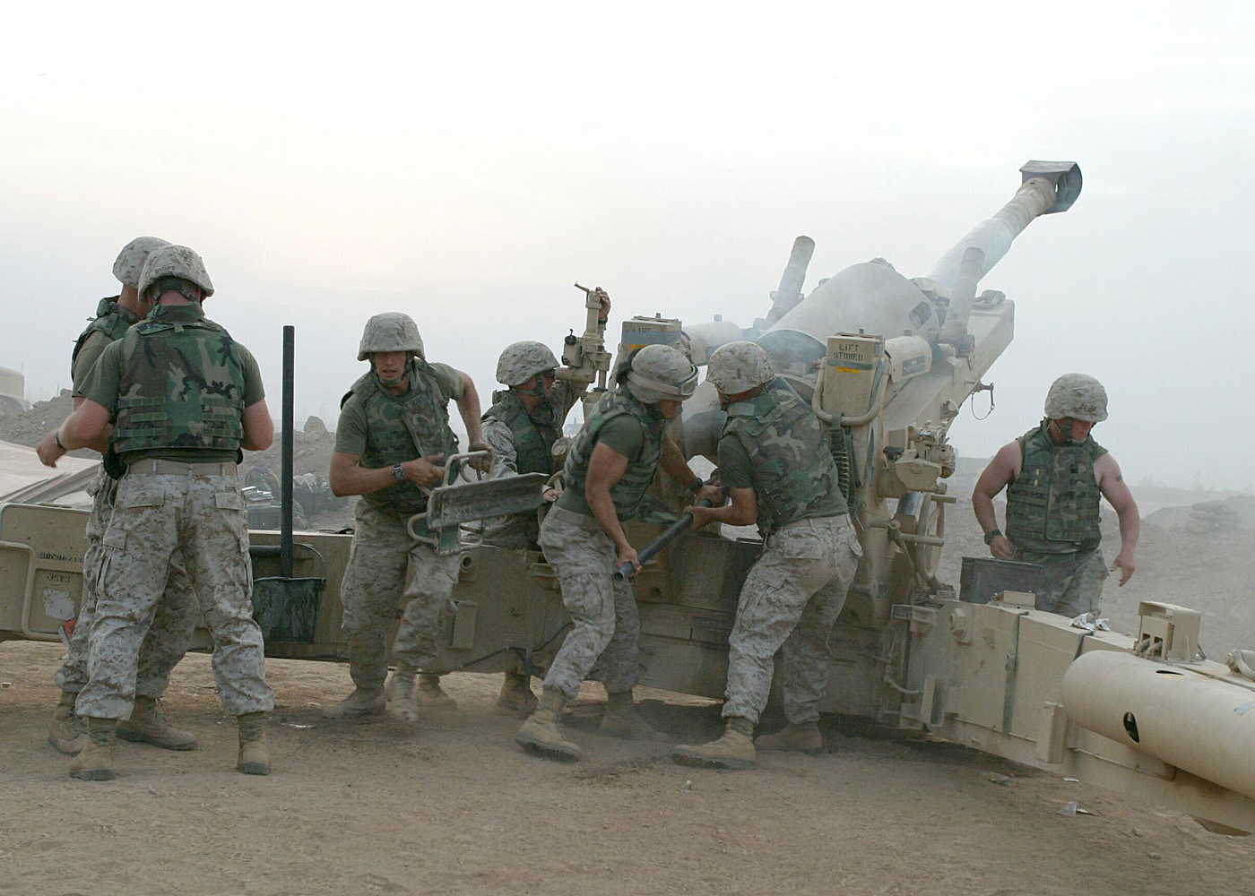 U.S. Marines fire an M198 Medium Howitzer providing supporting and defensive fire for Camp Fallujah in Iraq on Oct. 21, 2004. The Marines are assigned to M Battery, 4th Battalion, 14th Infantry Regiment, 1st Marine Division RCT-1.